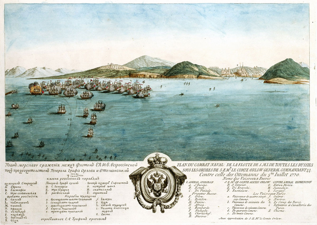 Plan first day of Battle of Chesme between Russian and Ottoman navy took place 5 july 1770